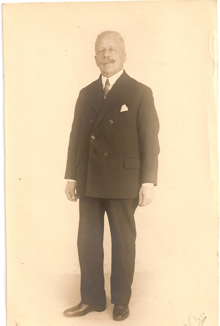 Scan of a portrait of Jacob van den Ban